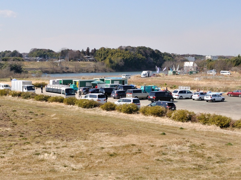 Television drama "Arakawa Under the Bridge" Arakawa Dry Riverbed Village filming location